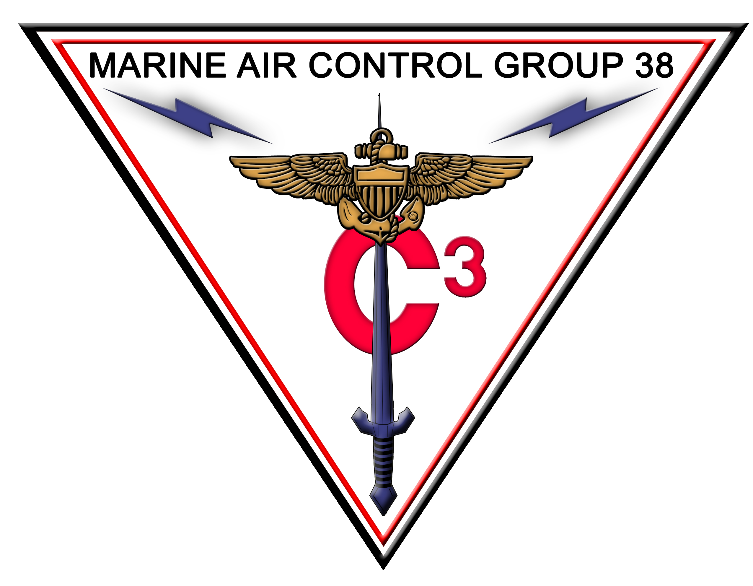 Approved insignia for MACG-38